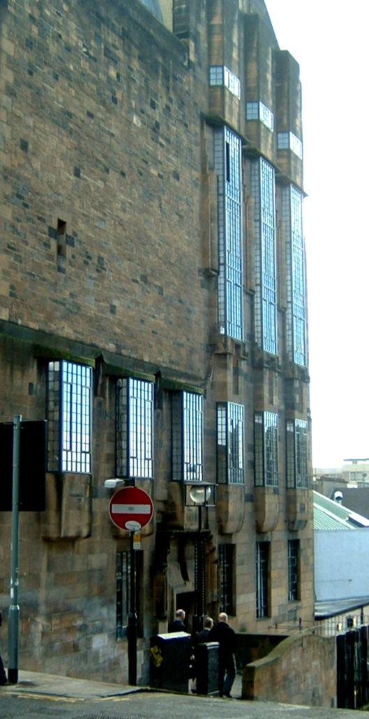 Western facade of Glasgow School of Art, taken by author October 2006